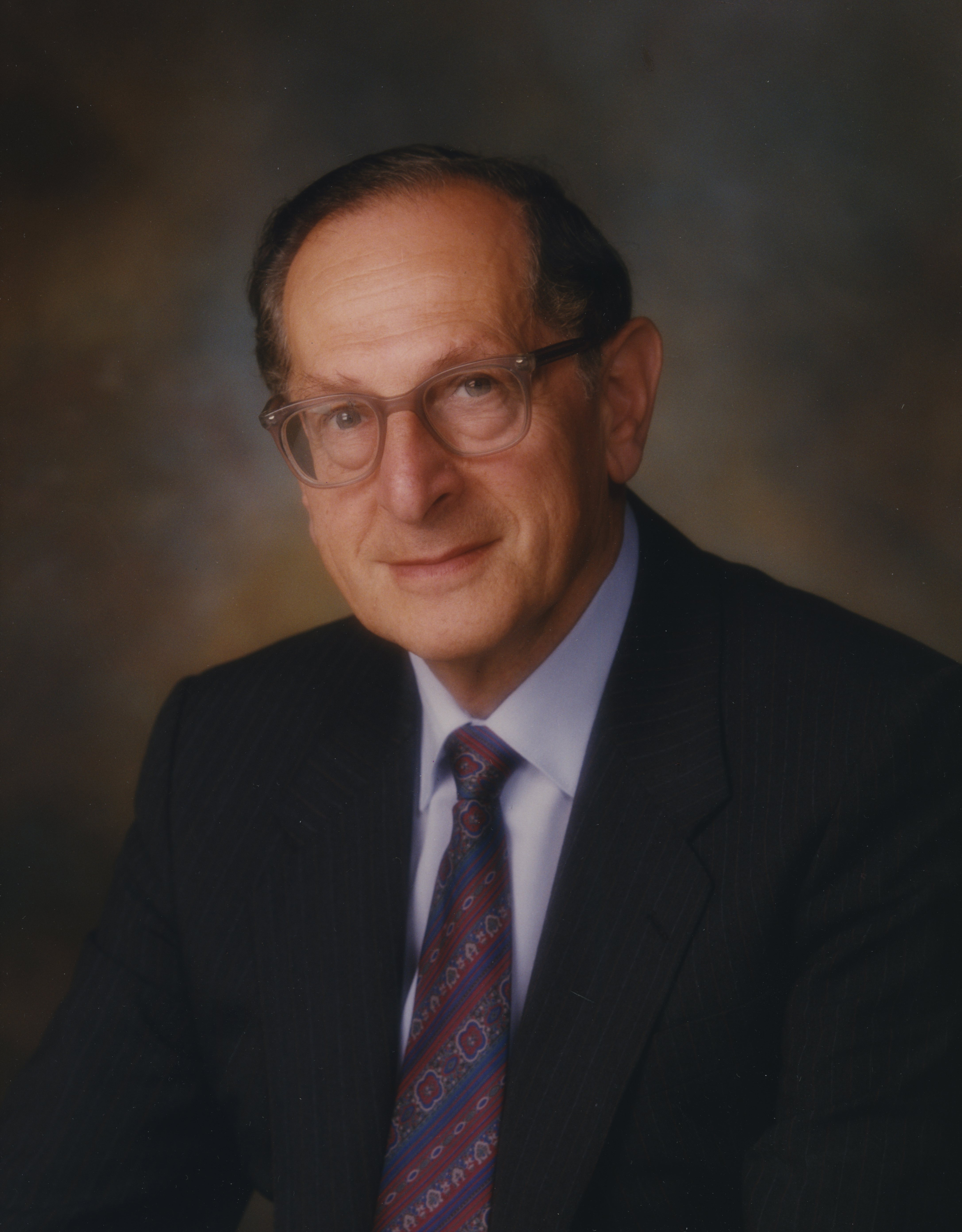 Photograph of Dr Herbert Barrie